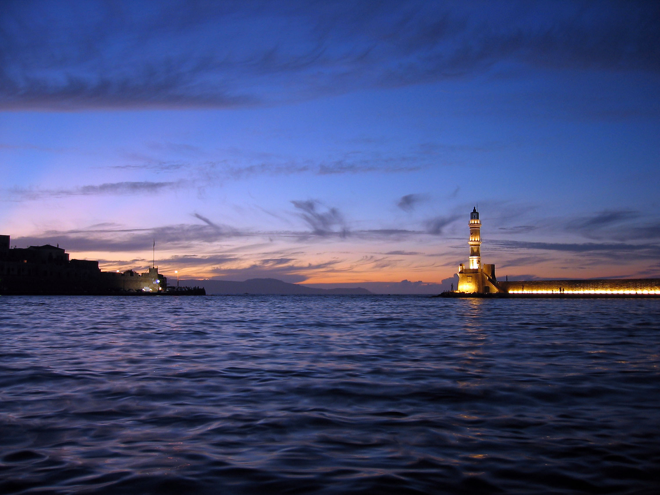 Harbour of Chania in the evening